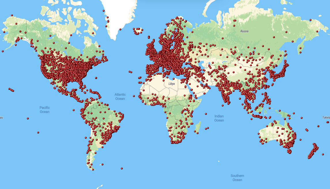 World museums map